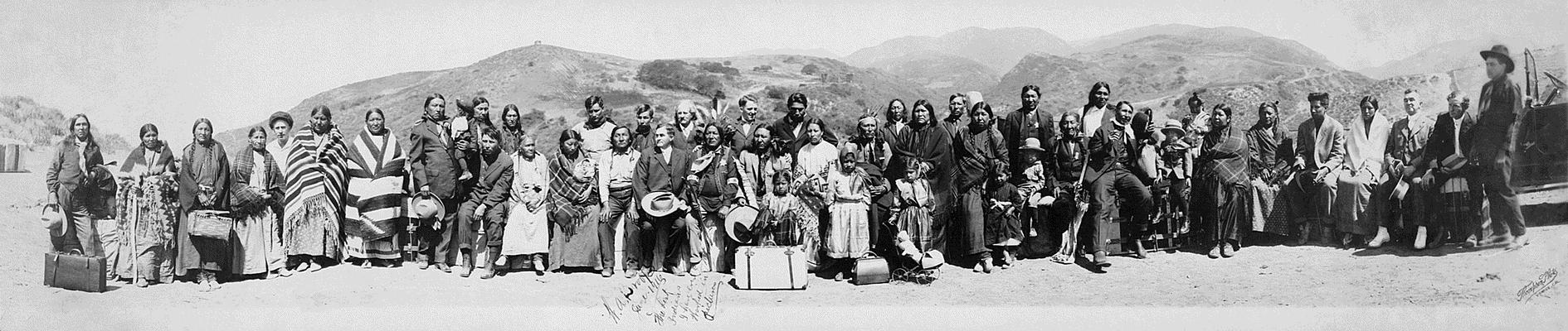 H. A. Brooks. June 1916. "The Best Indians I have ever glorified in Pictures" at an unspecified site, presumably in California. Records of the Bureau of Indian Affairs (75-PA-3-7) The description was handwritten on the photograph by Mr. Brooks. It was taken by Thompson Photo of Venice, CA, and measures 46" x 10".